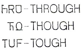 Different pronunciations of "ough" in "through", "though" and "tough" - spellings in Unifon